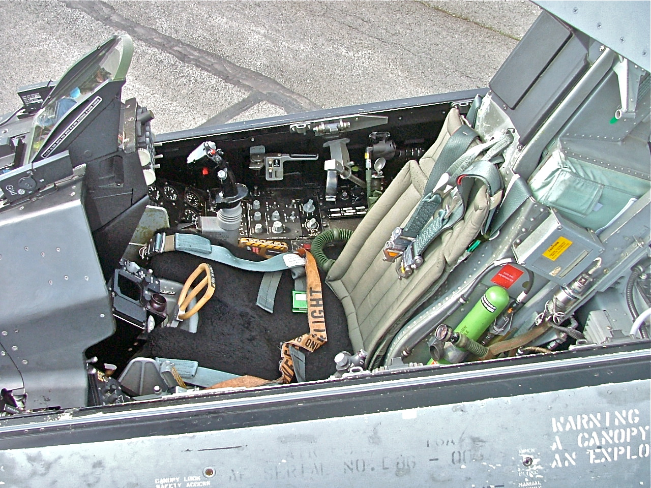 The cockpit of an F-16.